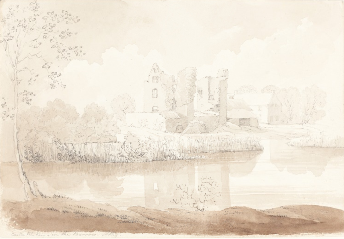 Castle Rheban on the River Barrow, Athy